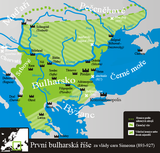 Map of the Bulgarian lands during the rule of Tsar Simeon I the Great (893-927)